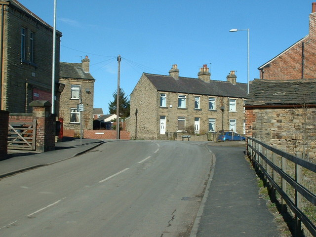 Netherton. The Junction of South Lane, Upper Lane and Netherton Lane.The Post Office is on the left and the Star Inn on the right.